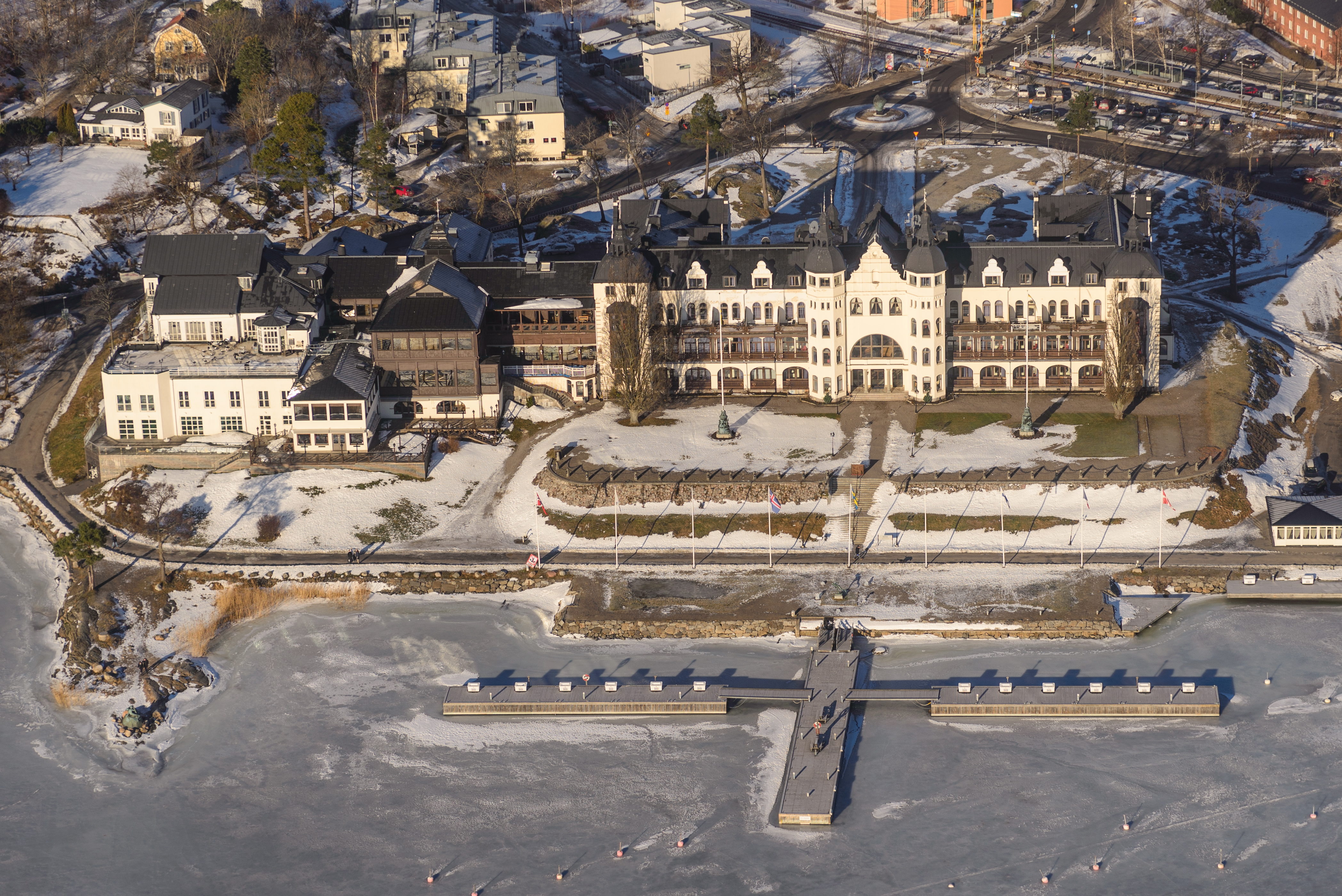 Grand hotell, Saltsjöbaden.